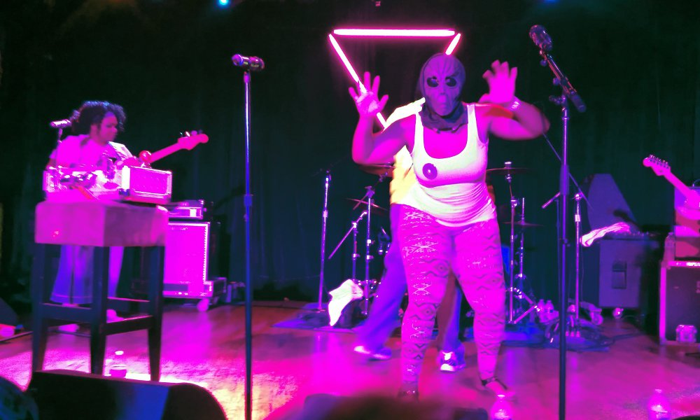 ESG performing "UFO" at the 5th Hard French ▼s Los Homos at Mezzanine in San Francisco, California, United States